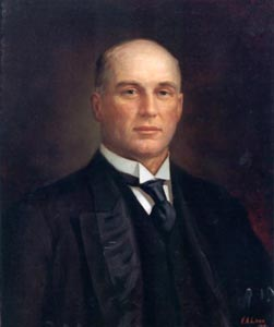 Charles Stewart, premier of Alberta